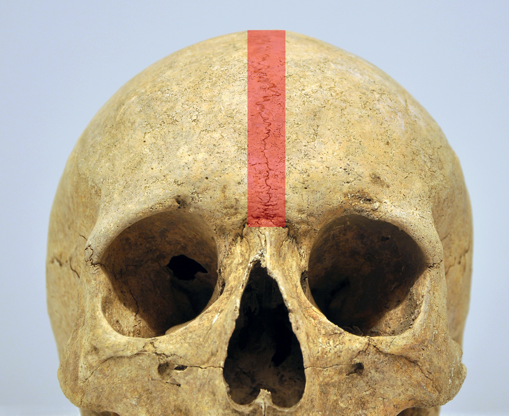 Adult human skull, showing the metopique suture ( in red ), which usually is no longer visible after two years old. This skull is an archeological material, from Aisne (France), and was shown in Laon during a temporary exhibition.